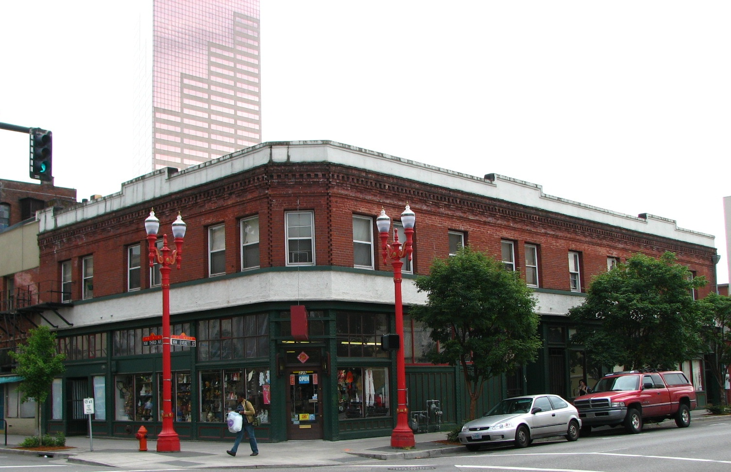 The Pallay Building (1908) at 231-239 Northwest 3rd Avenue in Portland, Oregon, United States, is listed on the US National Register of Historic Places. It is additionally within the Portland New Chinatown/Japantown Historic District; the district is also collectively listed on the National Register.